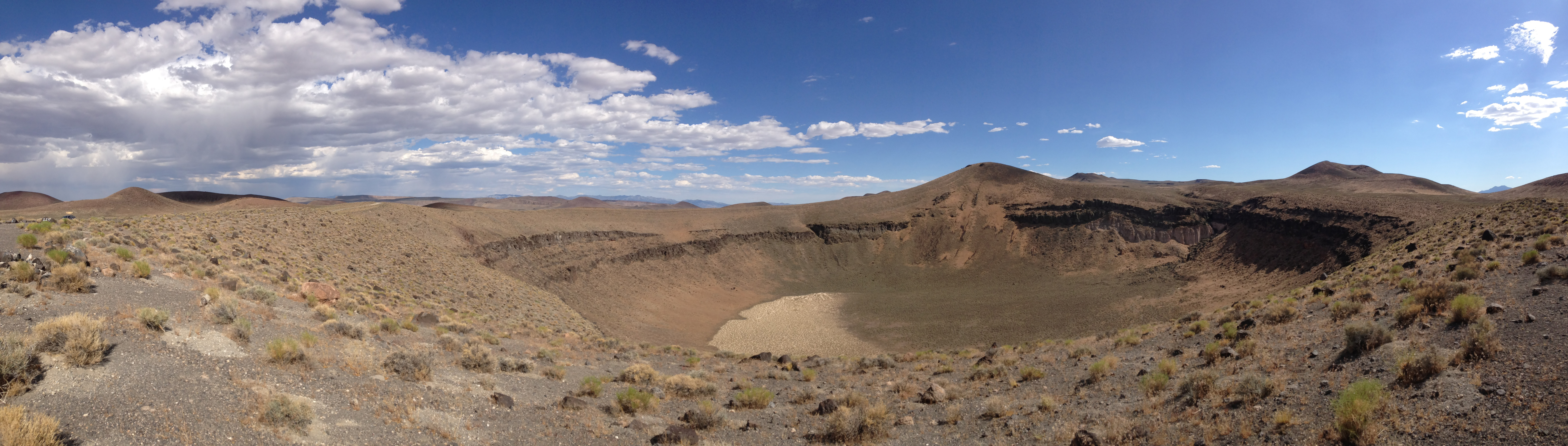 Panorama of the Lunar Crater, Nevada